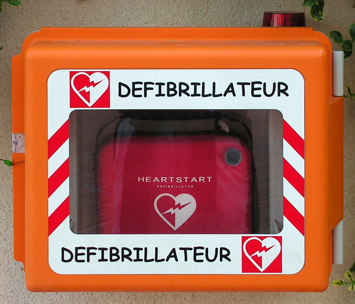 A "street defibrillator". Having a cardiac arrest in the "heart of Monaco" could be less problematic.